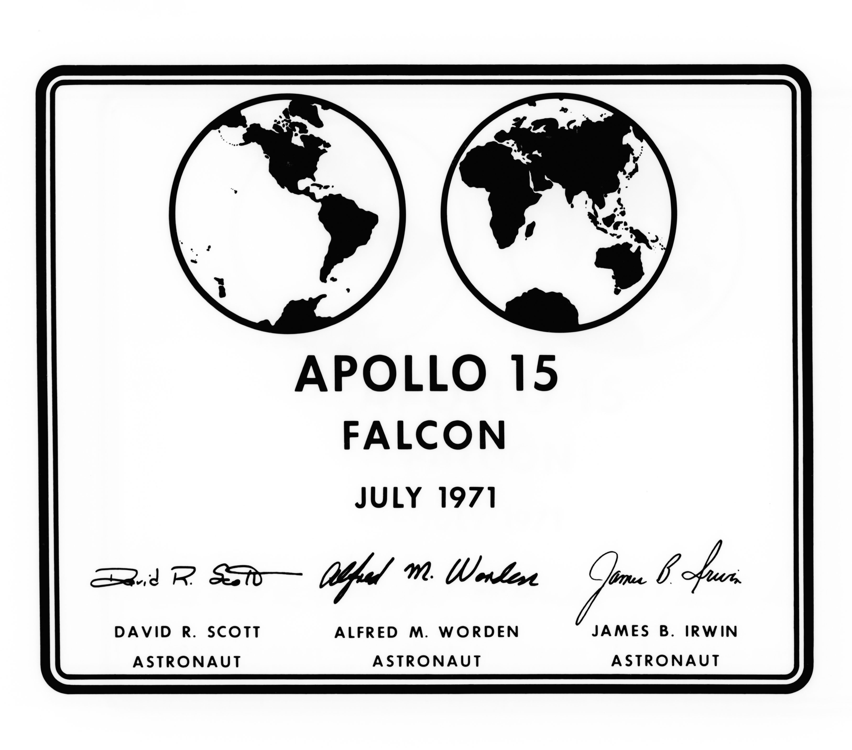 This appears to be NASA image S71-39357, from JSC here or another of their image archives. Afbeelding:Apollo-15-plaque.jpg